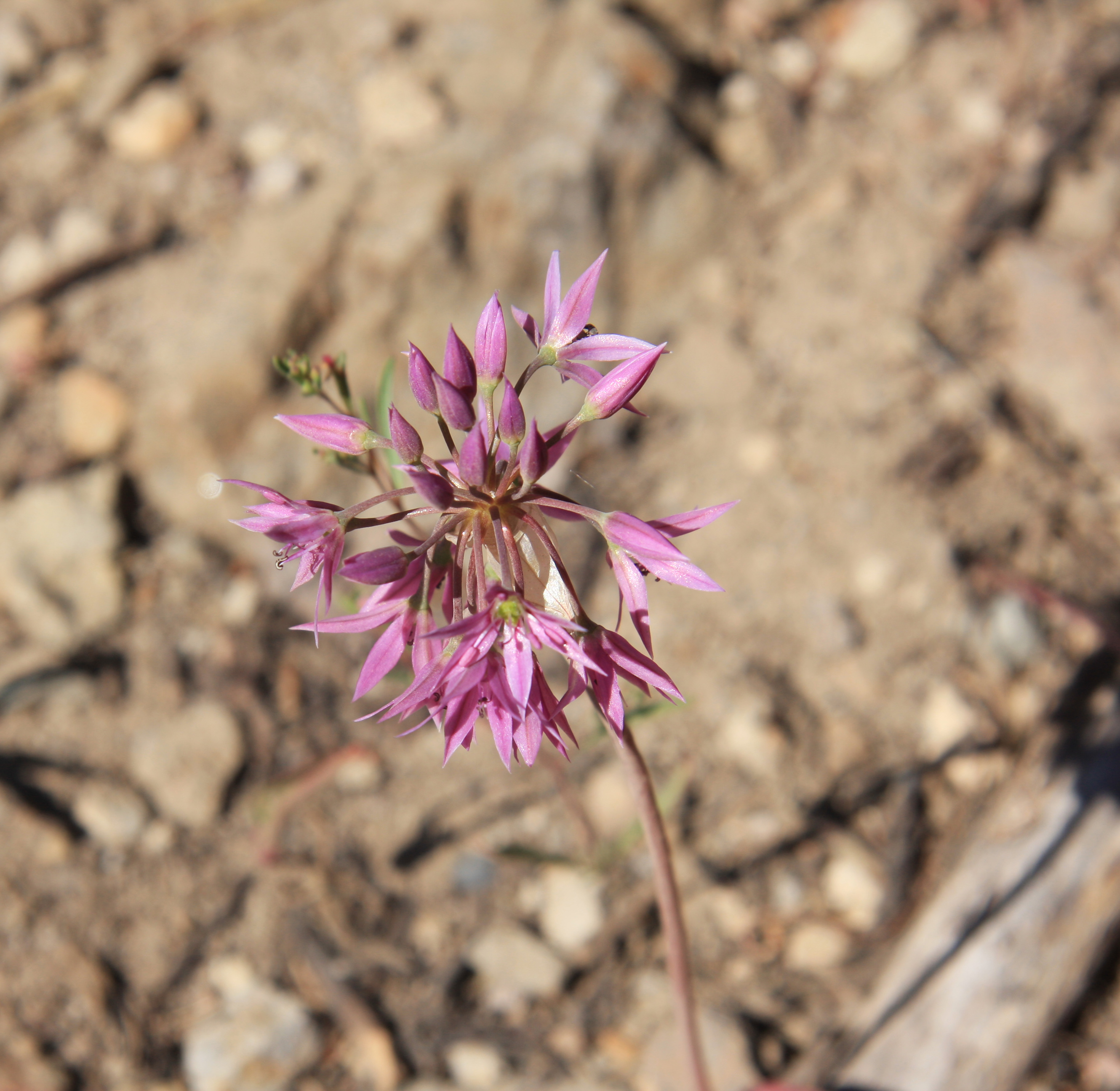 Sierra onion (Allium campanulatum). Closeup of flowerhead showing 6 pointed pink petals with one central nerve. At about 9000ft along High Trail (part of Pacific Crest Trail) from Agnew Meadows to Agnew Pass, Ansel Adams Wilderness, California.